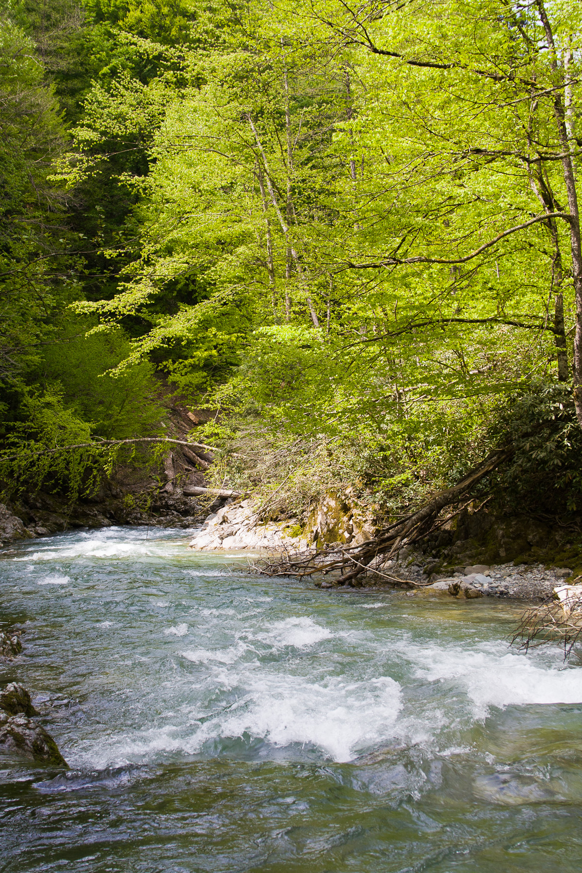 Psheha river near the Pshehashka river mouth